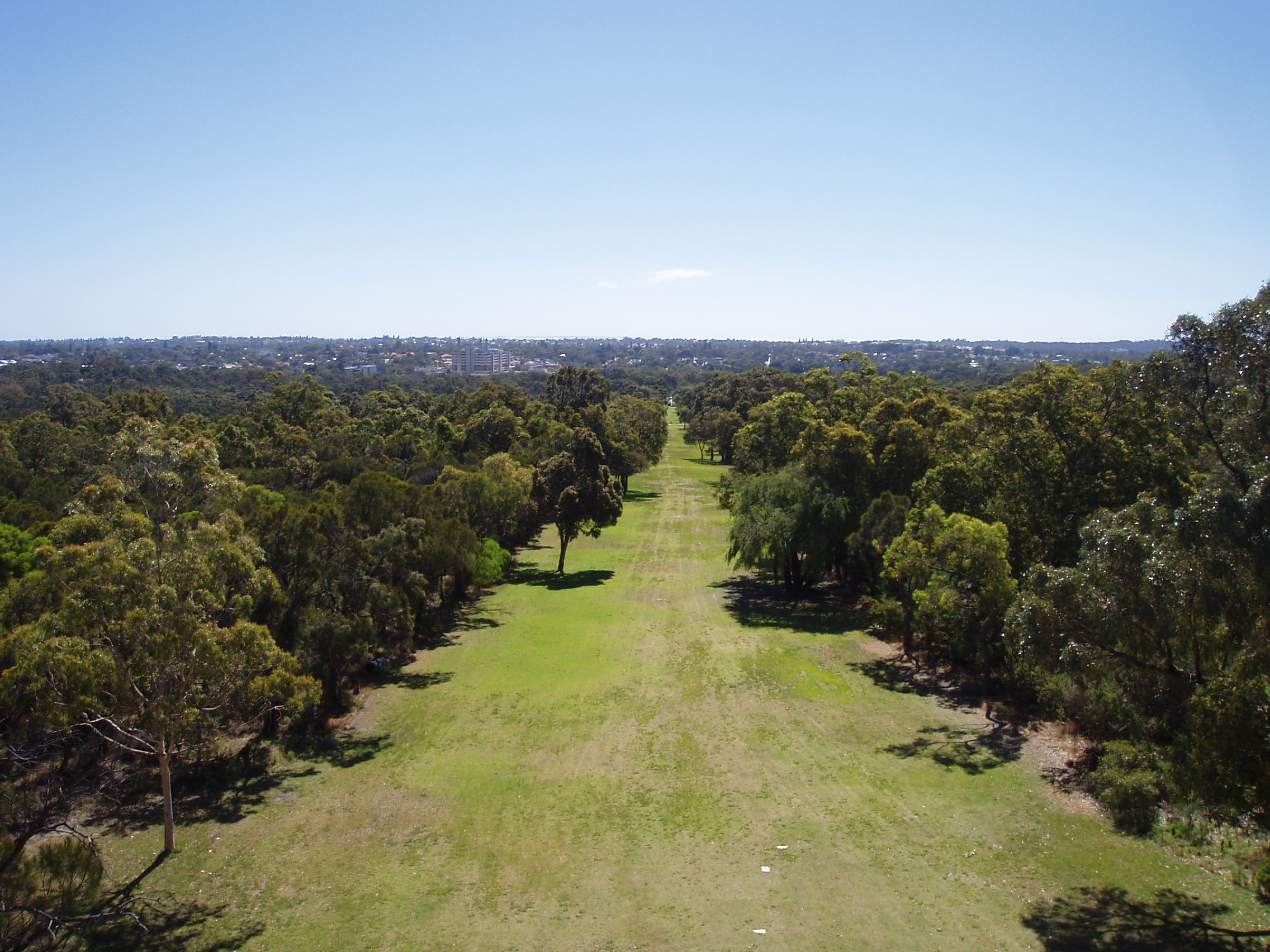 Kyle Thompson, Perth Western Australia 2004